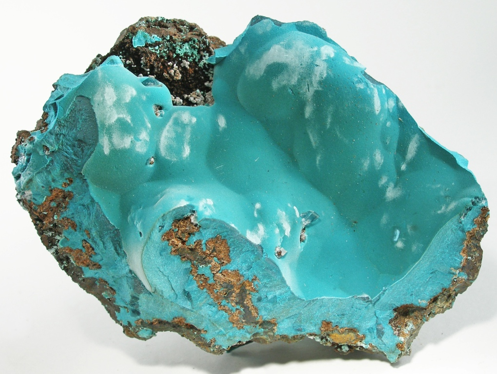 Rosasite Locality: Ojuela Mine, Mapimí, Municipio de Mapimí, Durango, Mexico (Locality at ) Size: 9.4 x 6.4 x 5.4 cm. Intergrown, velvety botryoids of rich blue-green rosasite undulate their way inside the curve of a limonite vug. A few scattered, glassy and gemmy, colorless calcite crystals, to 2mm across are perched on the rosasite. This is a very rich specimen for this normally rare species, and it forms here a very thick layer (to 1 cm), almost unheard of for the locale. From the new find of January 2010.